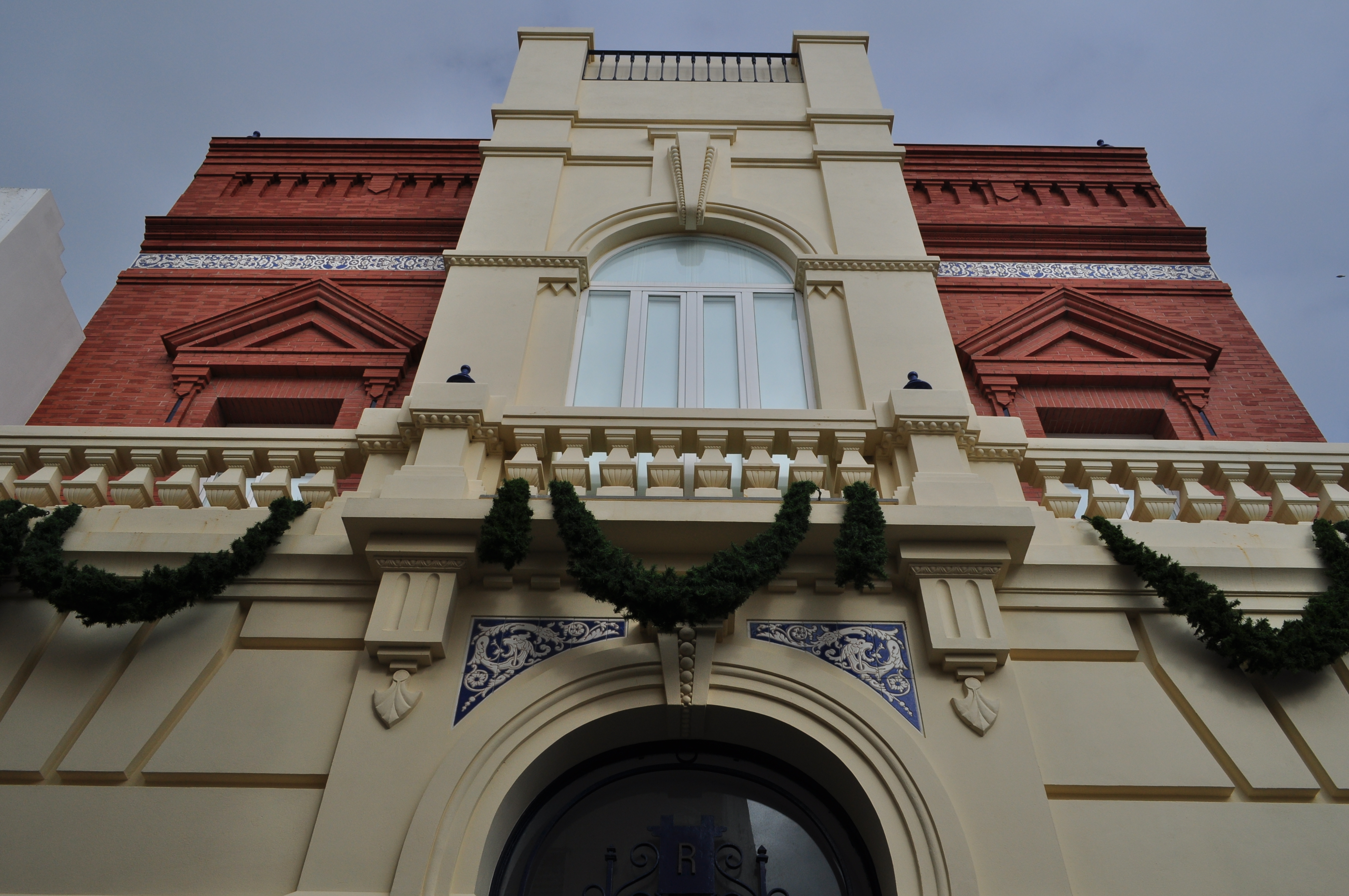 Facade of the Isla Cristina´s public library, "Casa de Román Pérez".